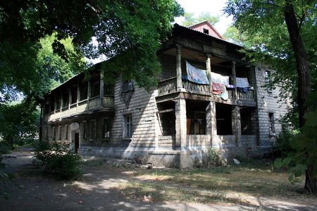 Дом